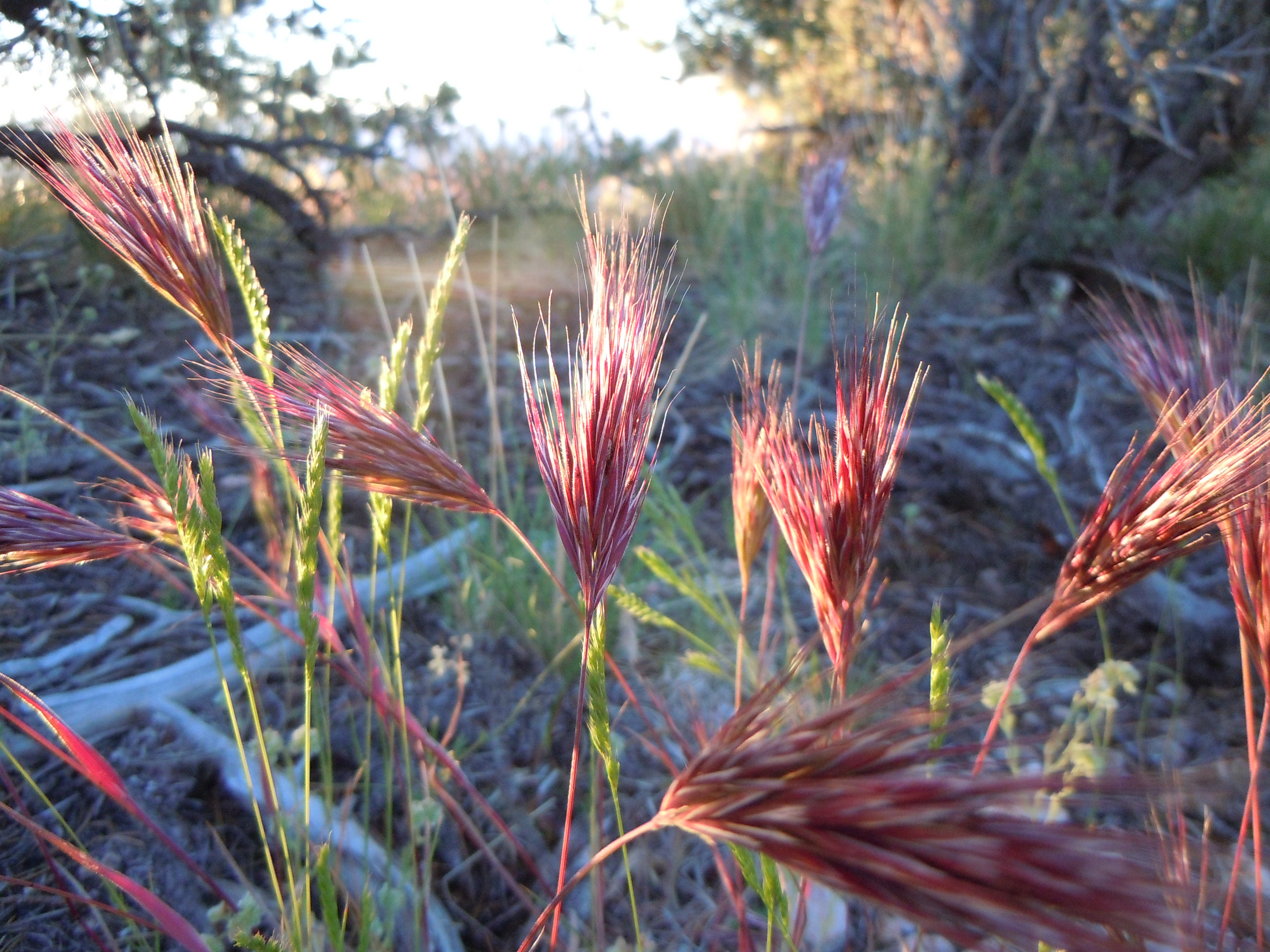 Bromus rubens (Bromus madritensis) — Compact brome. Invasive plant species (native to Europe) — in Grand Canyon National Park. Annual bromegrasses of Bromus sections Bromus and Genea often coexists in open dry settings that are frequently or occasionally-severely disturbed.